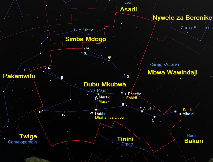 Constellation Ursa Major as seen from Lamu - Kenya, Swahili labelled Kiswahili: Kundinyota Dubu Mkubwa (Ursa Major) jinsi inavyoonekana kutoka Lamu - Kenya, majina kwa Kiswahili